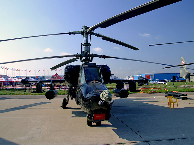 MAKS Airshow-2007. Ka-50.